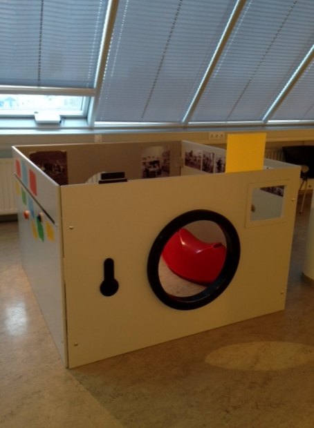 The Camera is specifically made for the museum´s youngest visitors.